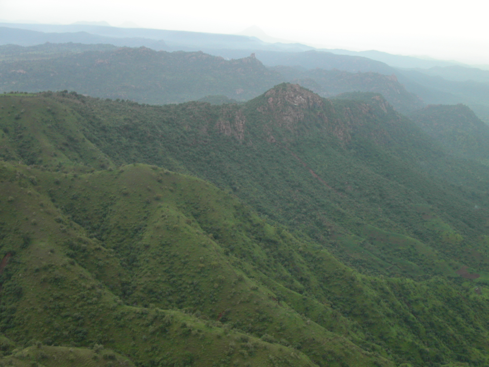 A misty morning near Endaselassie in western Tigray, Ethiopia Source: Image:Misty_Morning_near_Endaselassie.JPG taken by User:Julius Van Houten, there it says: Permission = I, the creator of this image, hereby release it into the public domain. This applies worldwide. Date: Sept. 2002